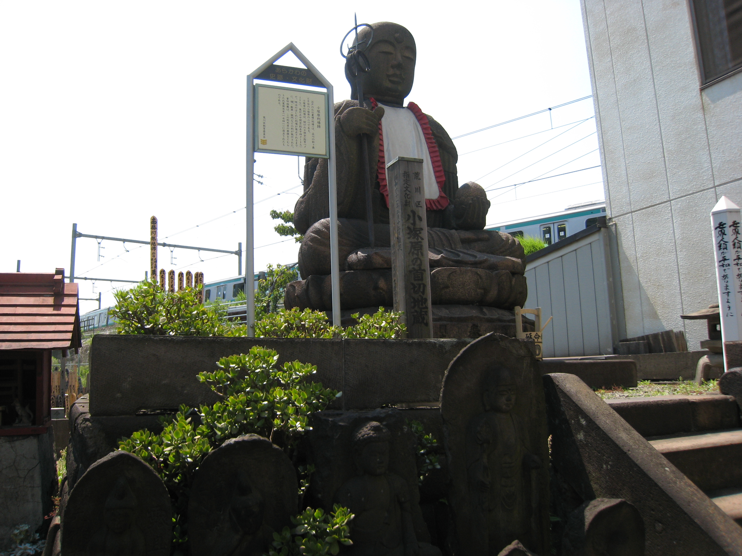 Kubikiri Jizo(guardian deity of children) at Kozukappara execution ground in Minami-senju,Tokyo,Japan